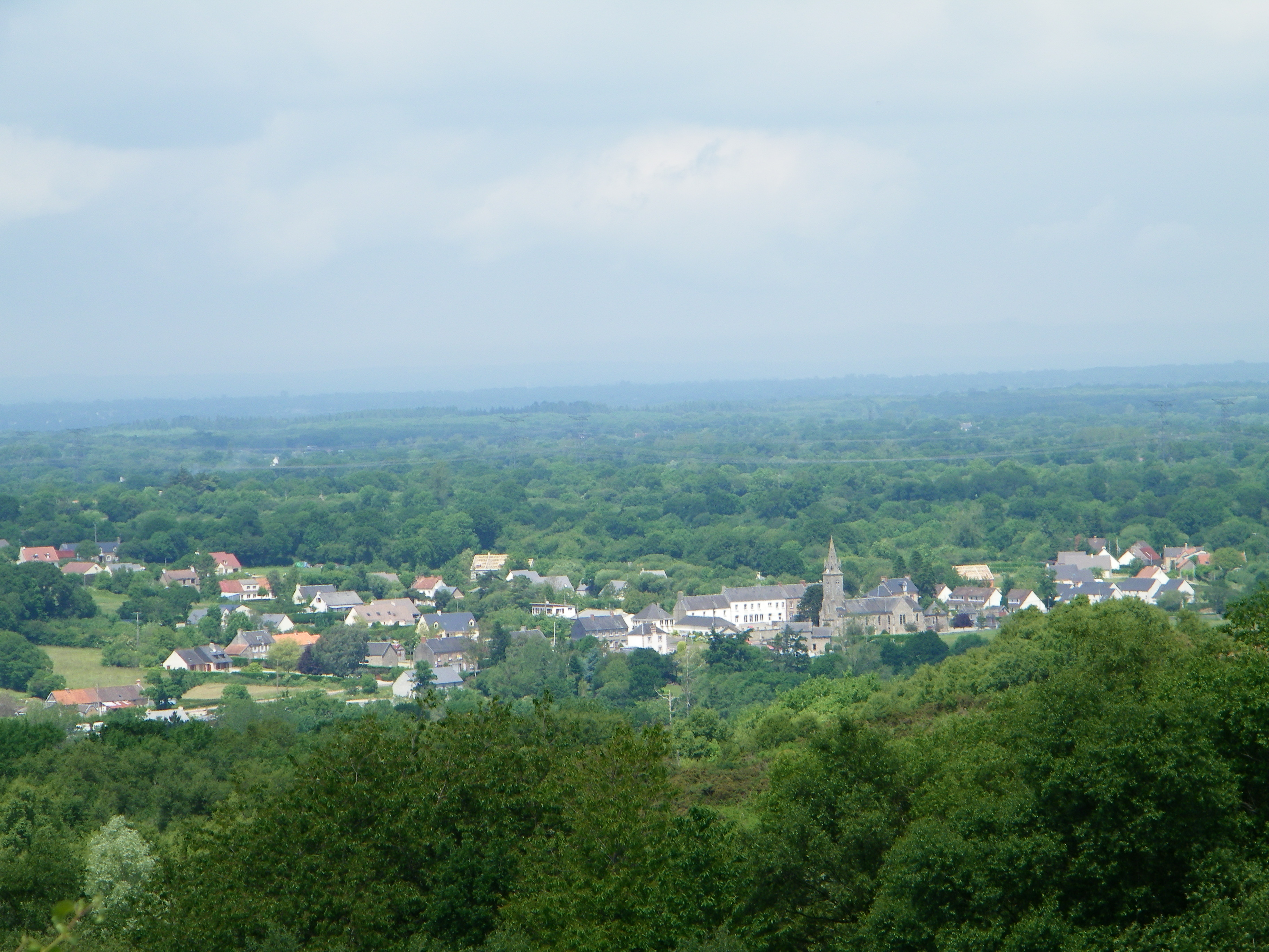 Picture of the village of Lithaire captured from the panoramic point of view of the mount Castre.